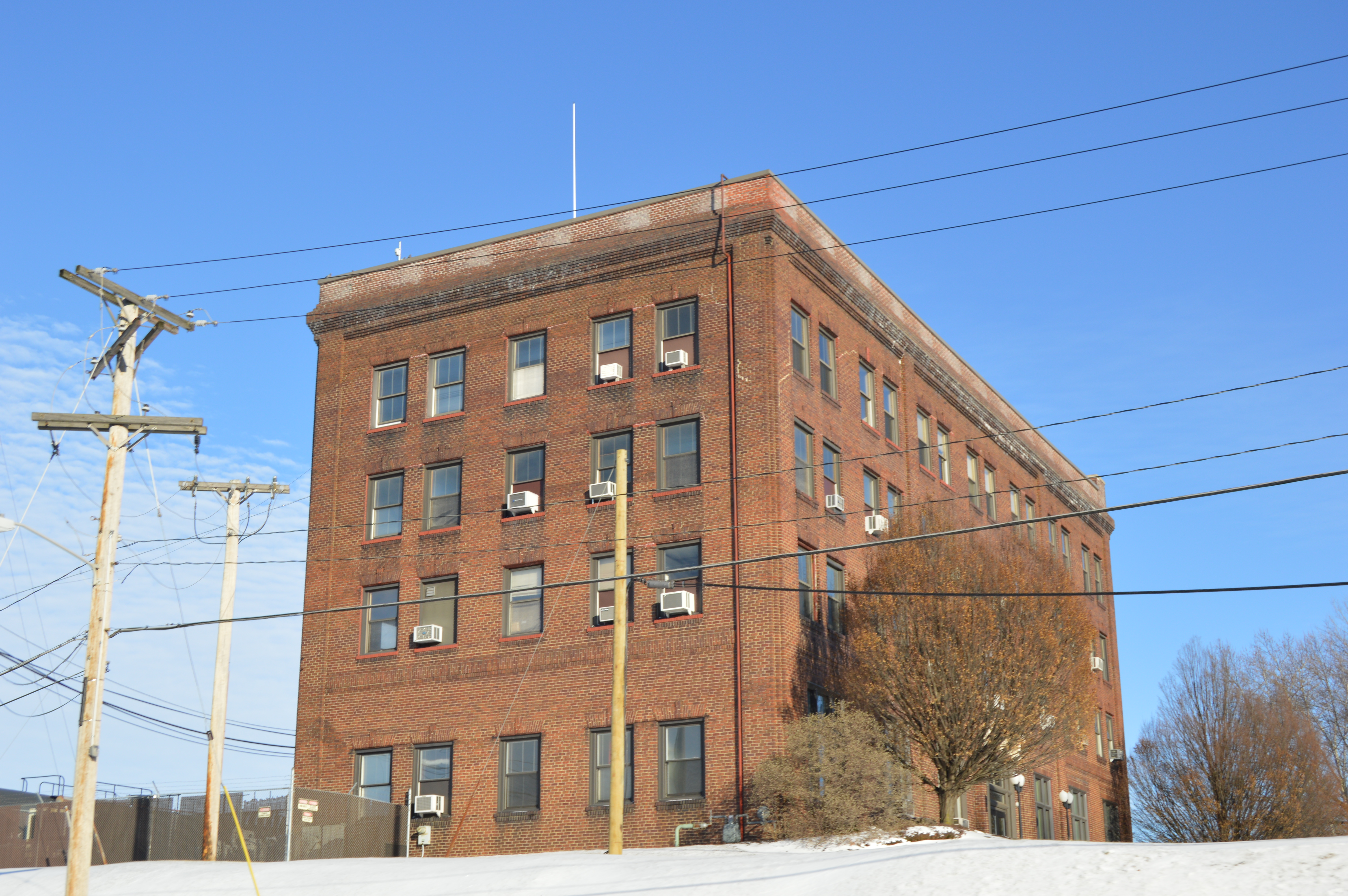 Wheeling and Lake Erie Railway offices in Brewster, Ohio, United States, located at 100 First Street Southwest and seen from Wabash Avenue (State Route 93).